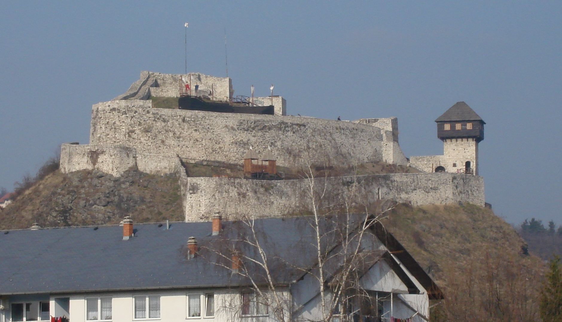 I took this photo in Nov. 2006.